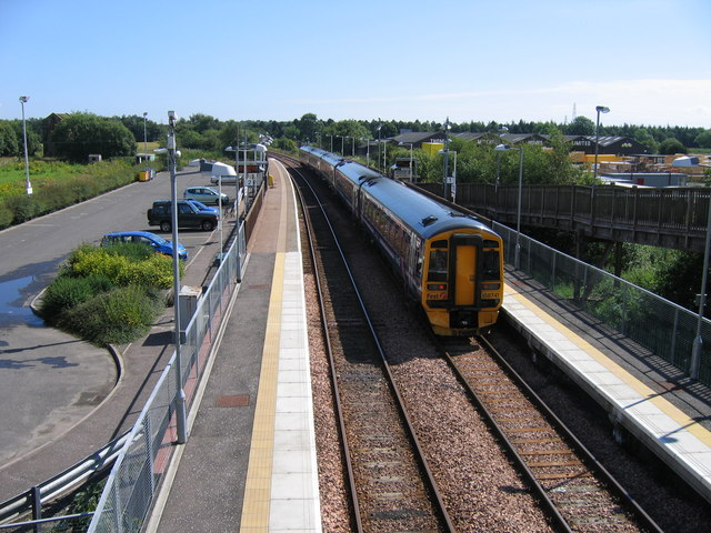 Glenrothes with Thornton railway station Viewed from Main Street bridge, Thornton, a five-coach Fife Circle train stands at Platform 1, waiting to depart for Edinburgh via Kirkcaldy. Although apparently a conventional double-track station, things are not quite what they seem. Most Fife Circle trains use Platform 1 in both directions. Platform 2 is used only by a few trains in the peak periods, running to or from Markinch and Perth. The two tracks diverge respectively south and north round the curve in the background. Immediately east of Main Street bridge crossovers between the two tracks mark the start of normal Up and Down double track. In the left background, half-hidden behind a bush, is the derelict winding house of a former coal pit.